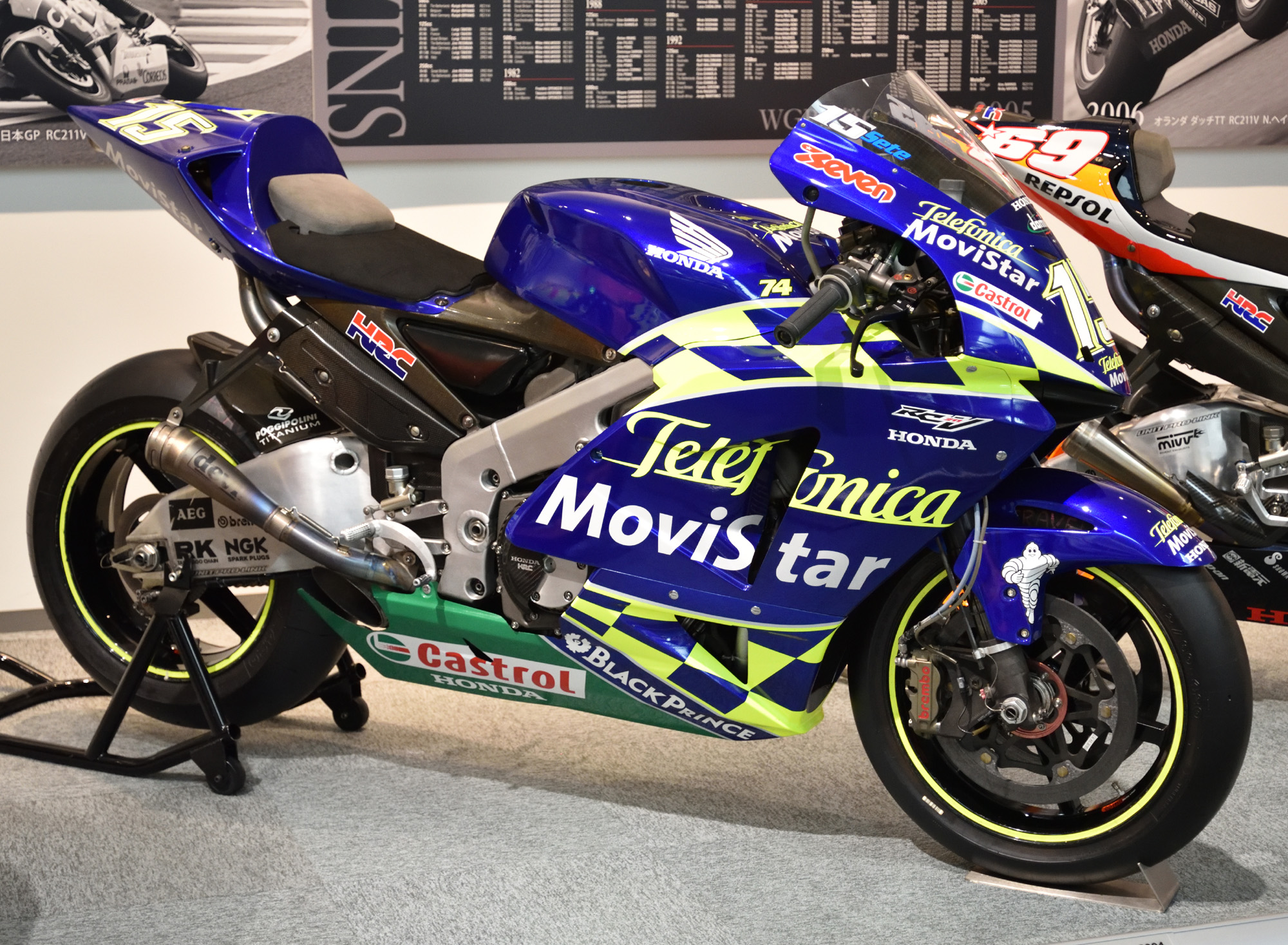 HONDA RC211V (2004, Sete Gibernau)